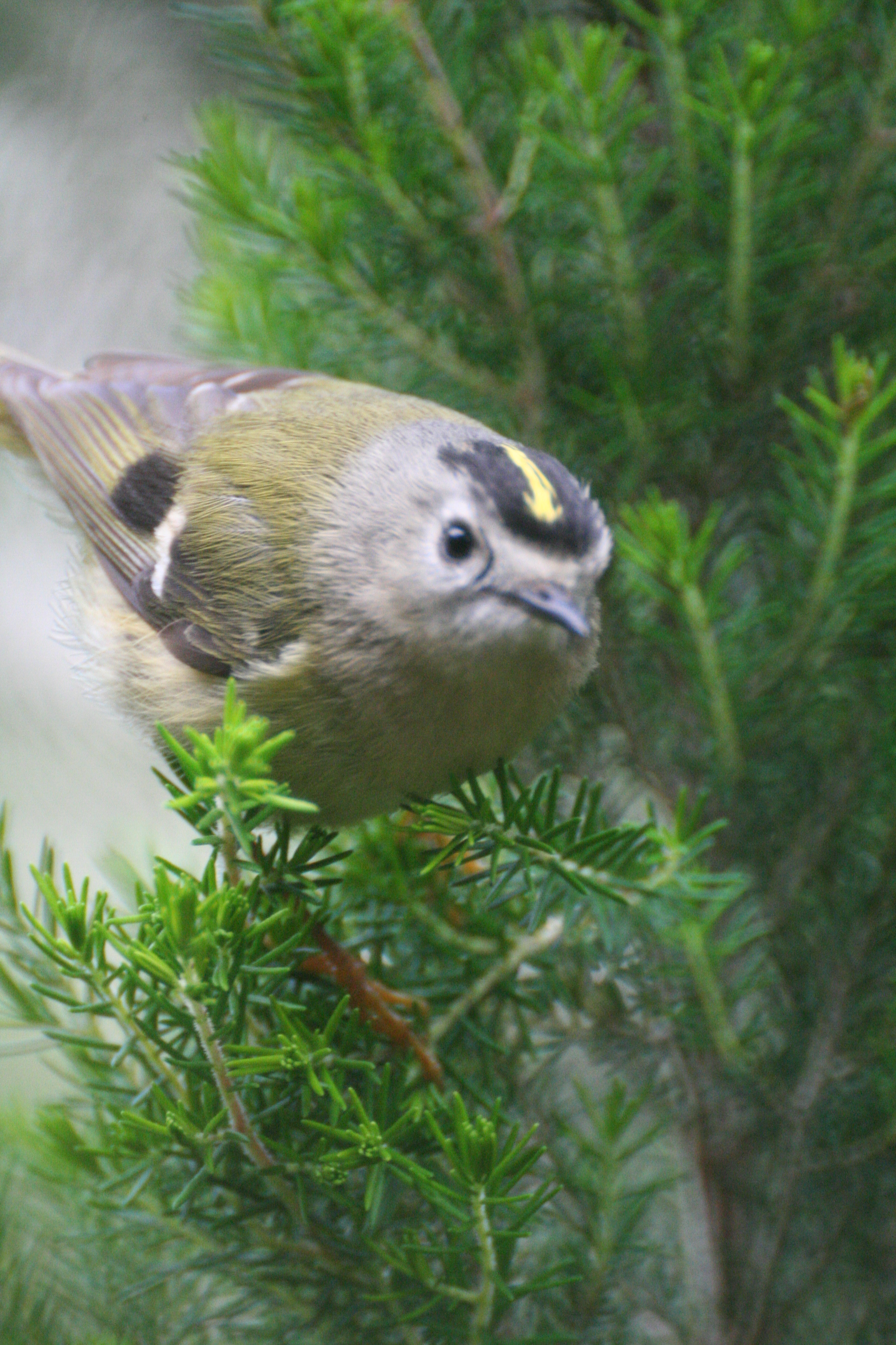 Tenerife Goldcrest (Regulus regulus teneriffae), female